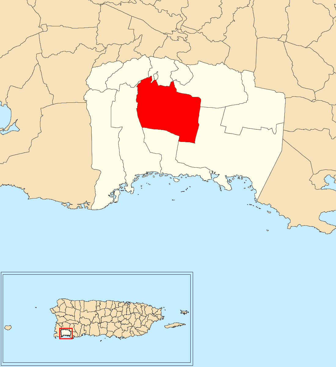 Sabana Yeguas, Lajas, Puerto Rico locator map